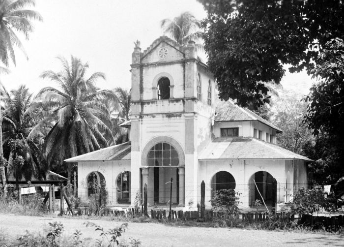 Mosque at Lalang